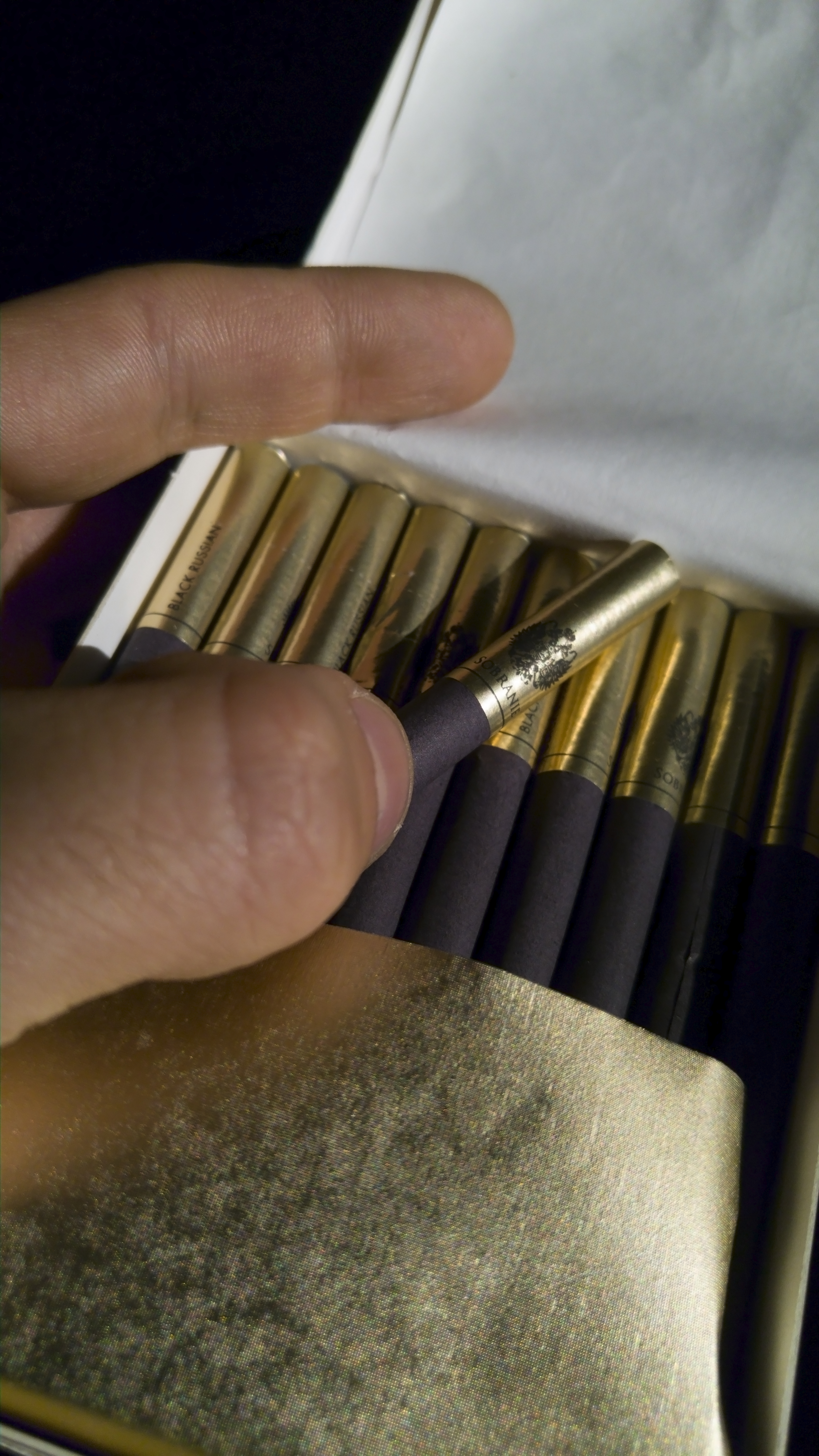 Sobranie (Russian: Собрание, "Gathering", "Collection", "Assembly") is a British brand of luxury cigarettes, currently owned and manufactured by Gallaher Group, a subsidiary of Japan Tobacco.